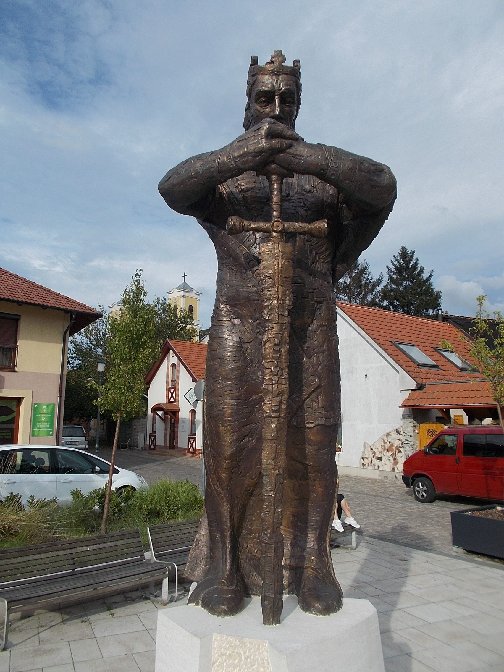 Statue of Béla IV on Dozsa Square, Dunakeszi, Pest County, Hungary.